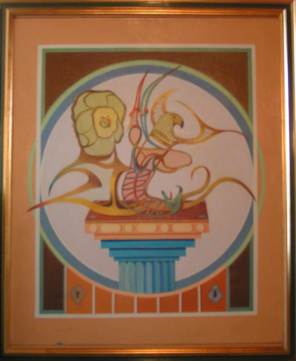 Work of the Italian painter William Girometti, untitled (in homage to Pier Paolo Pasolini), 1980, oil on canvas, cm. 65x80 - owned by his daughter.